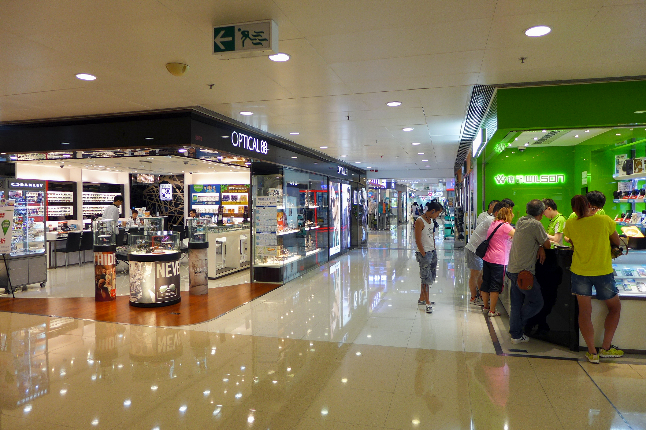 tmtplaza Phase 1 Level 2 shops